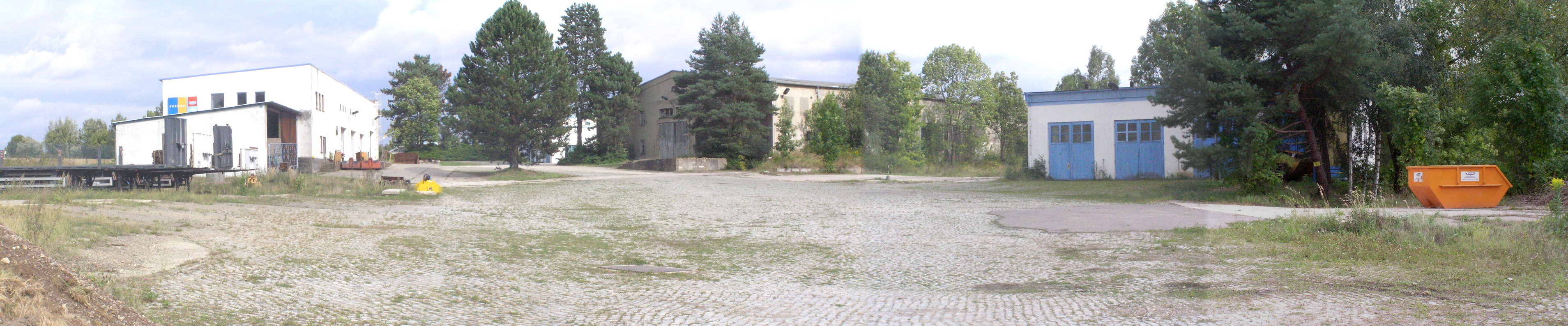 View of the former construction and erection company Wismut PB 80 in Zwirtzschen